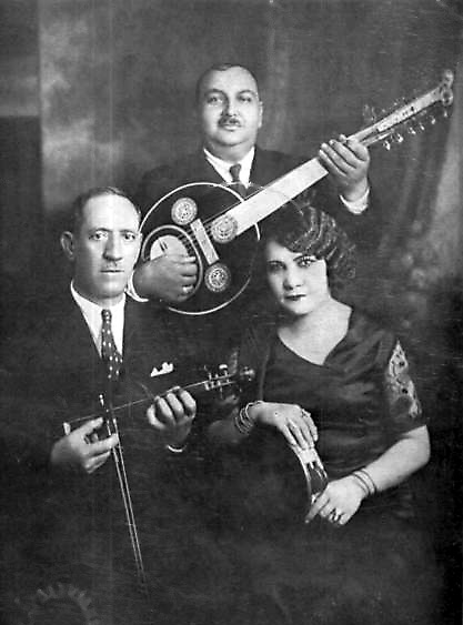 Smyrna style rebetiko trio: Dimitris „Salonikios“ Semsis, Agapios Tomboulis, Rosa Eskenazi (Athens 1932)